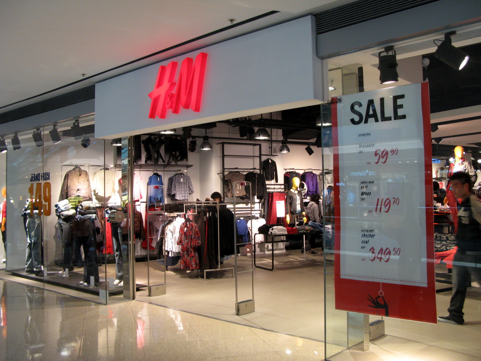 H&M Store in Festival Walk, Hong Kong